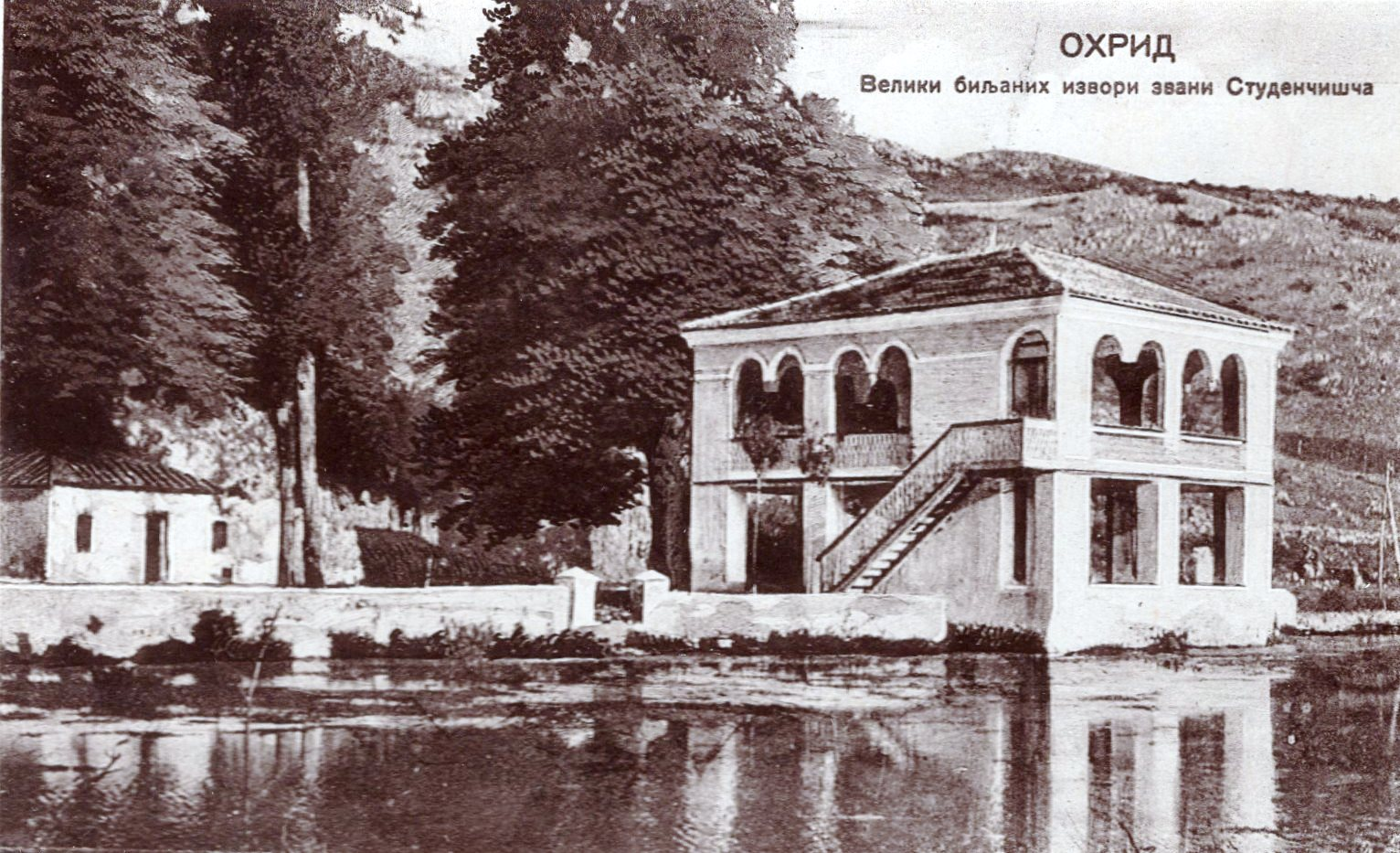 Postcard of Ohrid, Biljana Springs, from 1930's This media file is produced by Wikipedian in Residence in Category:Wikipedian in Residence at DARM in 2016.